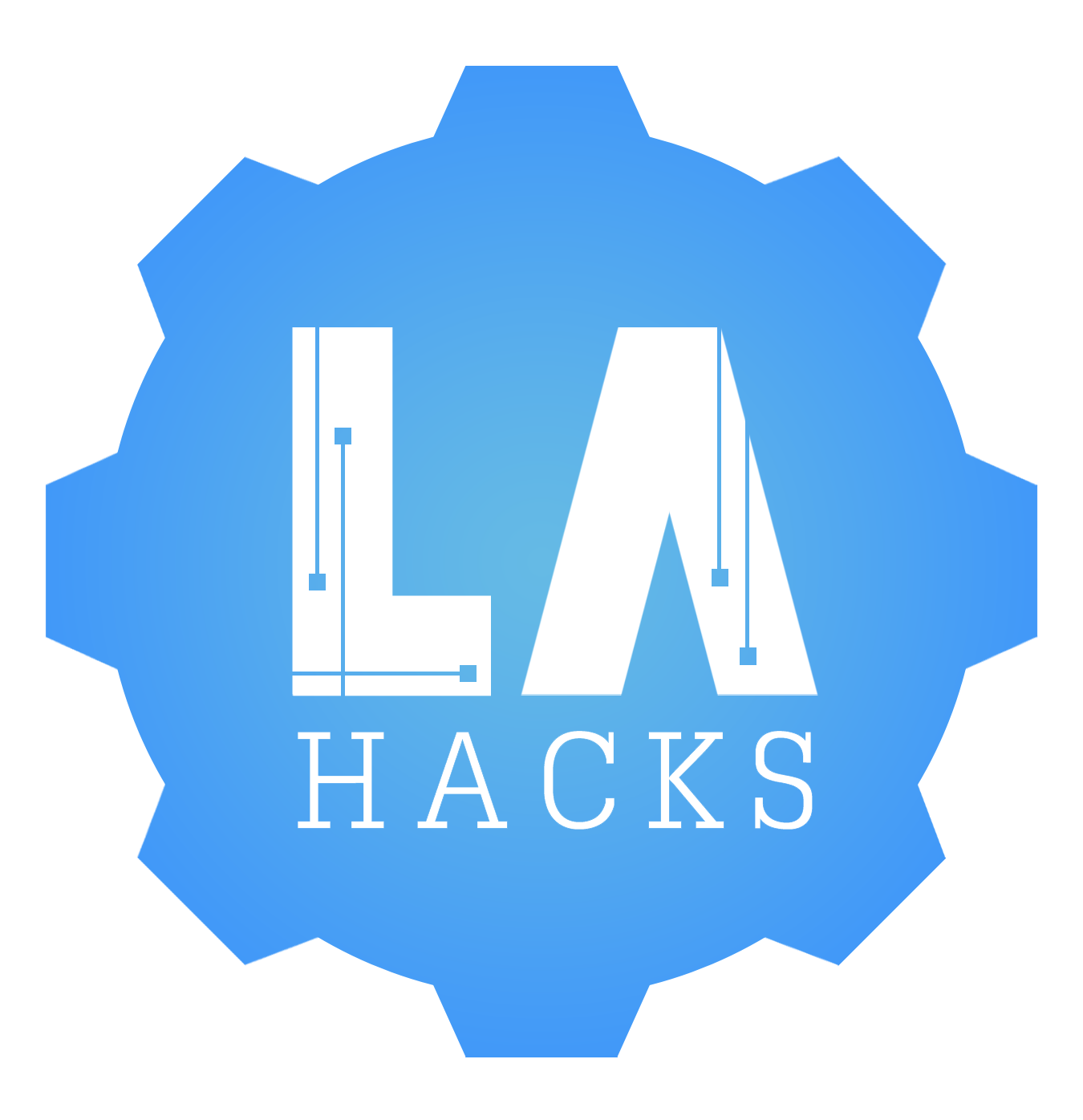 LA Hacks logo